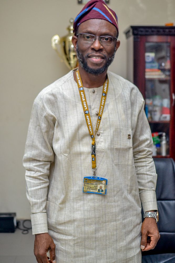 portrait of Prof Olanrewaju Fagbohun